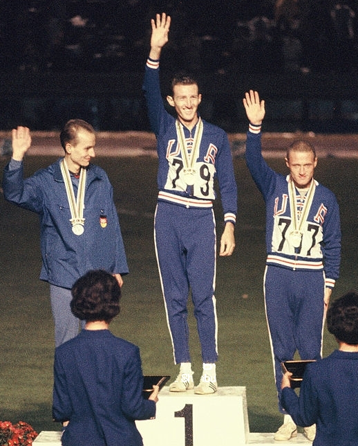 Harald Norpoth, Bob Schul, Bill Dellinger at the 1964 Olympics